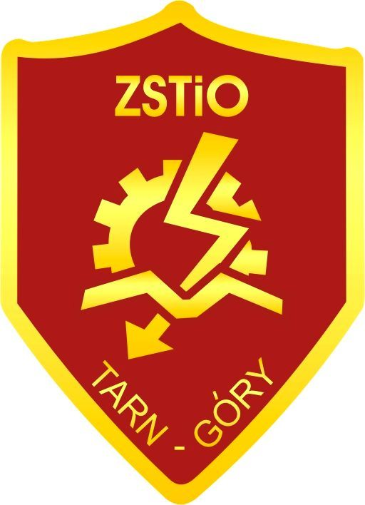 Logo ZSTiO